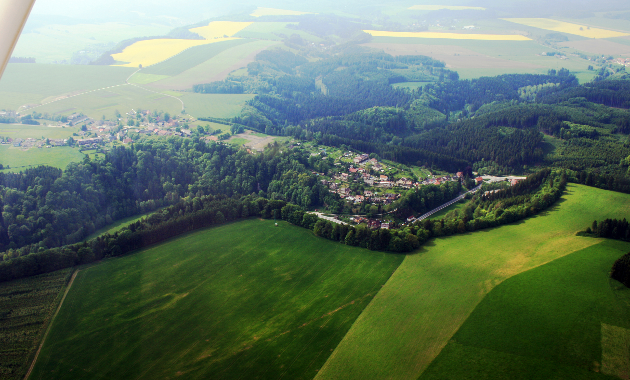 Village Velké Petrovice and its part Petrovice from air, eastern Bohemia, Czech Republic